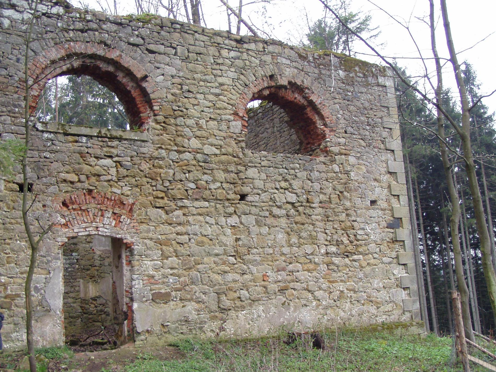 Zdoňov - ruins of church of Virgin Mary